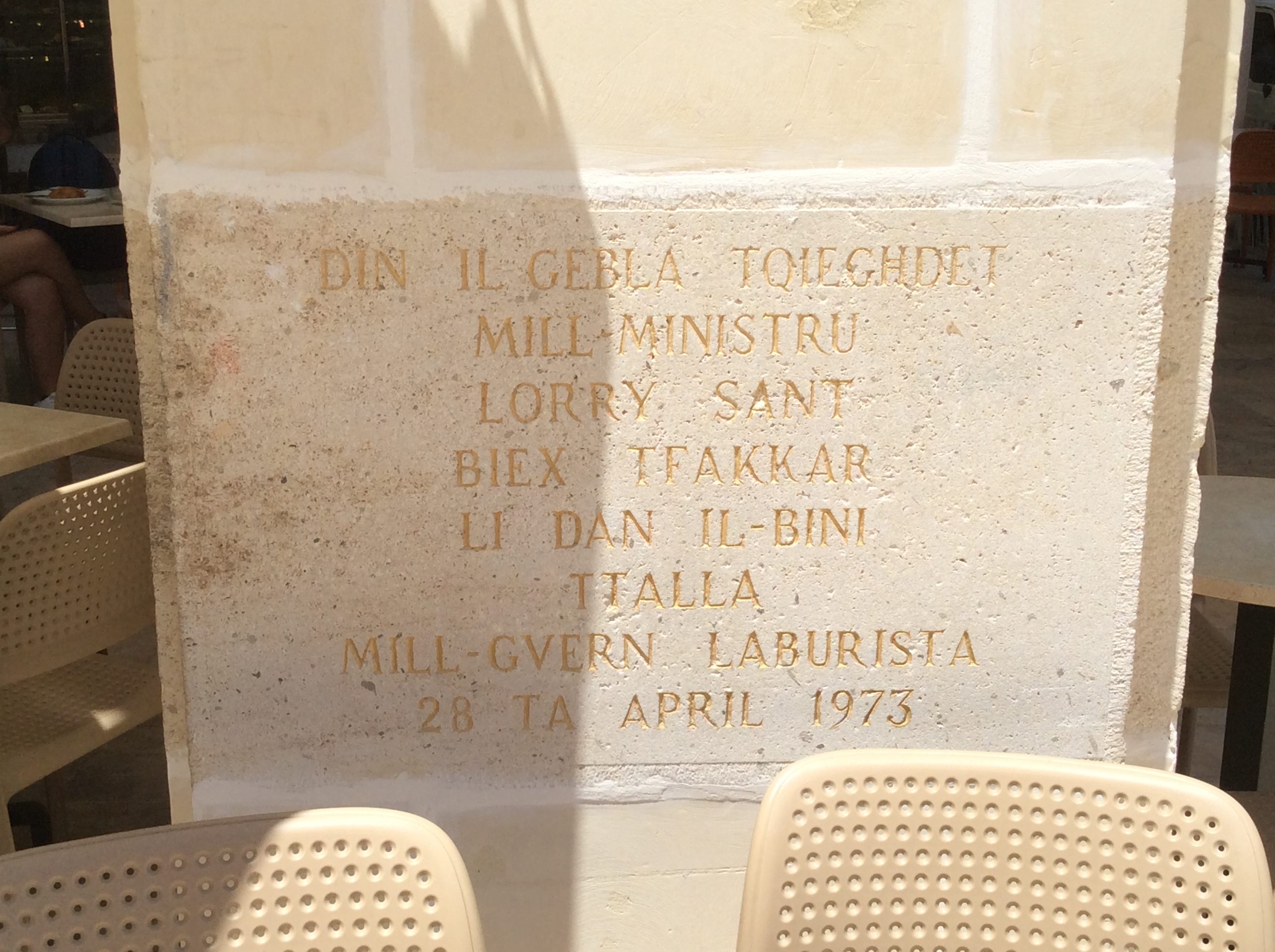 Valletta City Gate